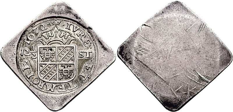 Low Countries, Groningen. AR 12 1/2 Stuivers Klippe (7.04 g). Siege coinage. Dated 1672. • IVRE • • ET • TEMPORE • • 1672 •, crowned coat of arms of Groningen; 12 1/2 ST flanking Blank. Delmonte 738; Mailliet 7; KM 24. VF, toned. In the Franco-Dutch War (1672-1678), France and its allies invaded the United Netherlands in an attempt to capture land from the weaker Dutch forces. Ever eager to increase his influence and power, Christoph Bernhard von Galen, bishop of Münster, joined the French and besieged the Dutch city of Groningen in 1672. The siege was ultimately unsuccessful, and Bishop von Galen retreated on 28 August of the same year. This coin was struck afterward to commemorate the end of the siege. 28 August is still celebrated as a local holiday in Groningen; it is called “Bomm’n Berend” after the nickname given to Bishop von Galen by the townspeople.